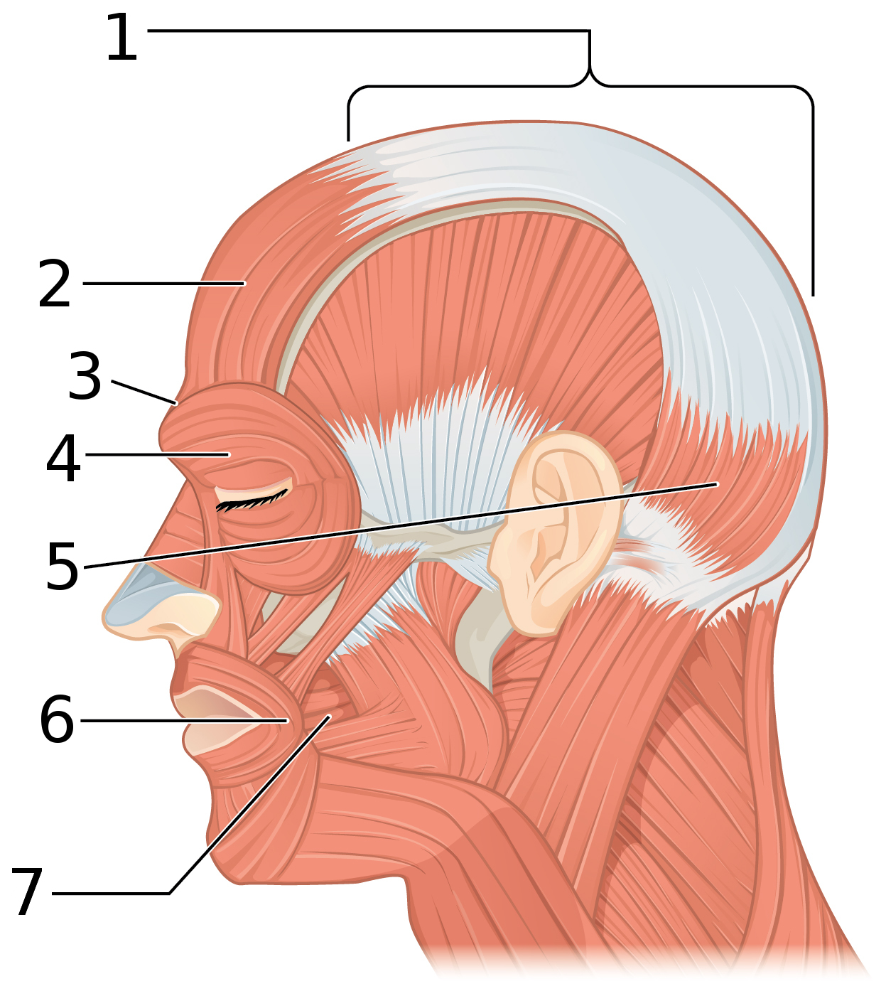 Illustration showing the muscles of the face and head. Legend: English from top: 1. Epicranial aponeurosis 2. Occipitofrontalis muscle (frontal belly) 3. Corrugator supercilii muscle 4. Orbicularis oculi muscle 5. Occipitofrontalis muscle (occipital belly) 6. Orbicularis oris muscle 7. Buccinator muscle Latin from top: 1. Galea aponeurotica 2. m. occipitofrontalis venter frontalis 3. m. corrugator supercilii 4. m. orbicularis oculi 5. m. occipitofrontalis venter occipitalis 6. m. orbicularis oris 7. m. buccinator